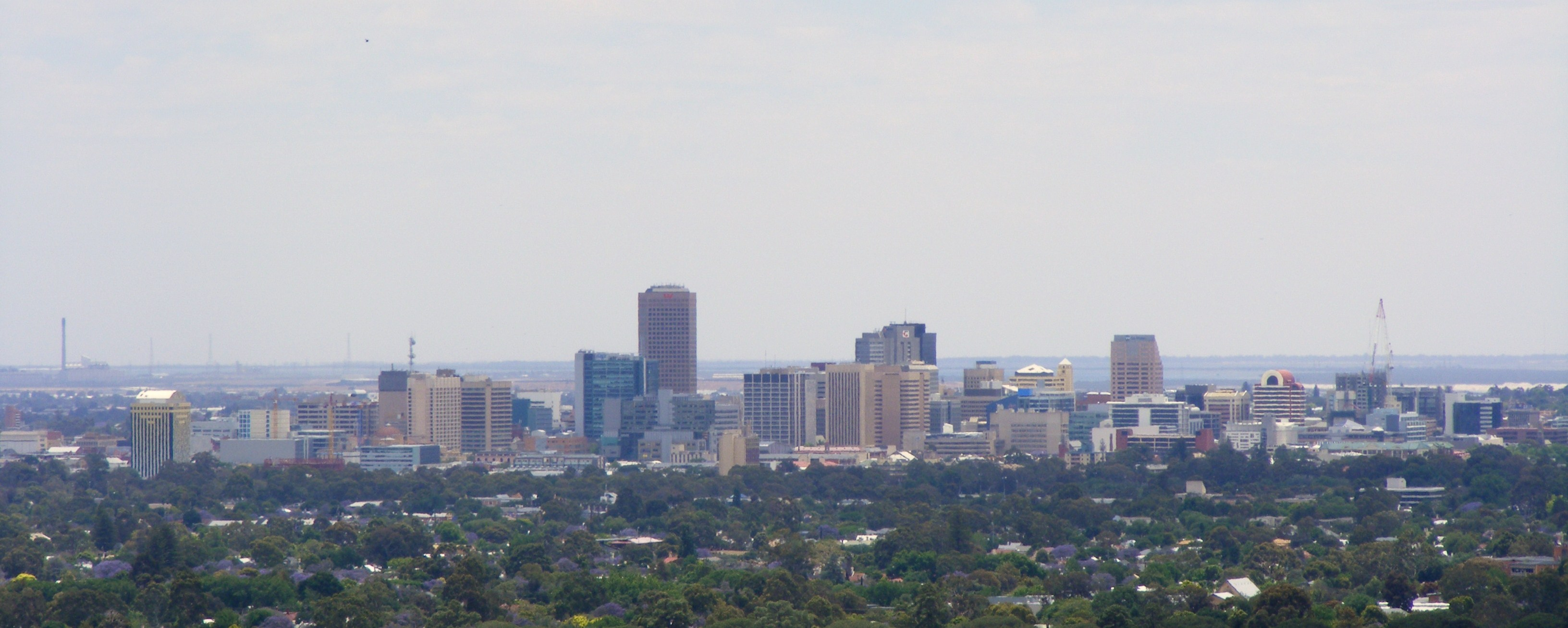 Adelaide skyline from Carrick Hill. Taken by Norman Hackenberg.